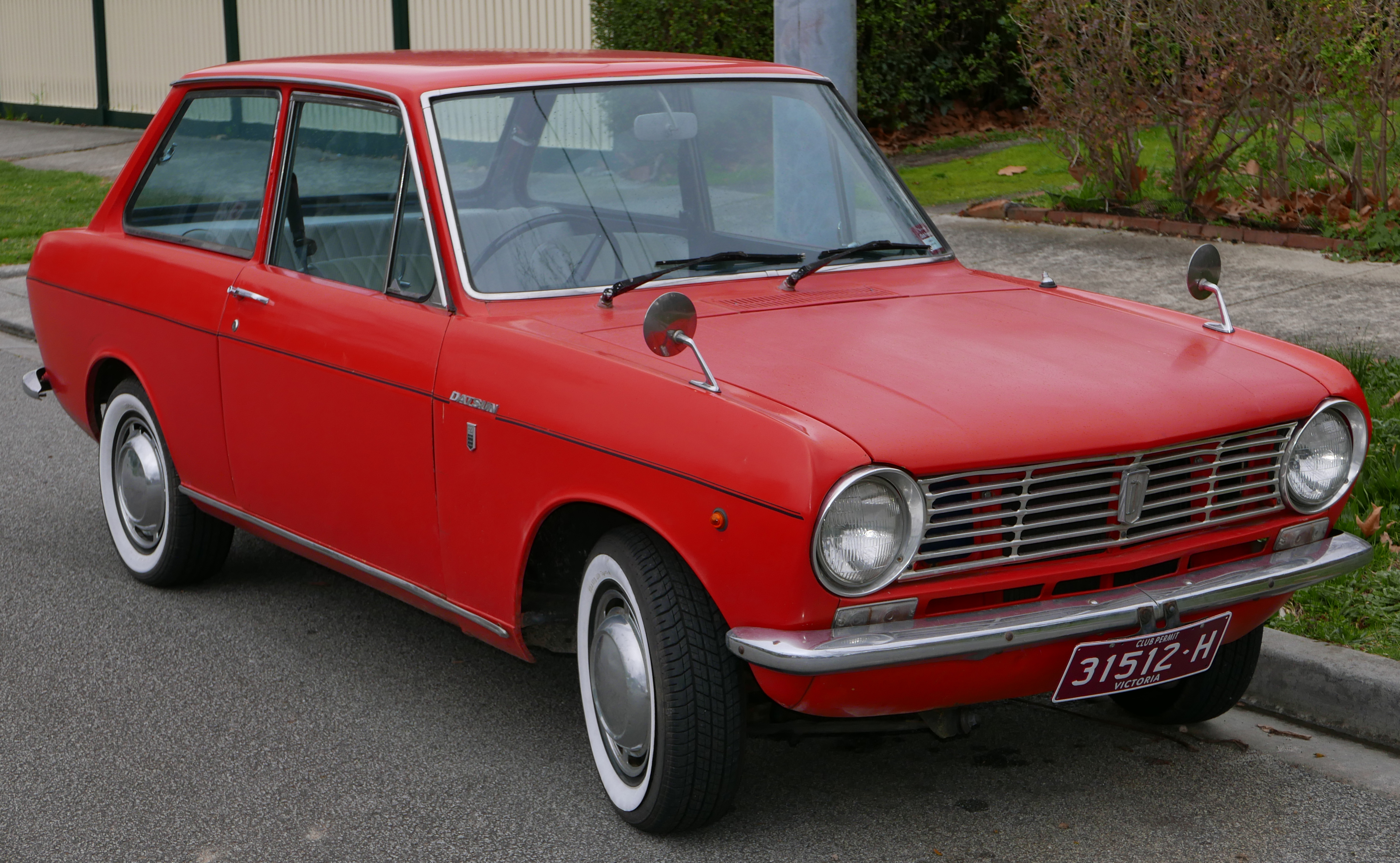 1967–1969 Datsun 1000 DeLuxe 2-door sedan. Photographed in Ivanhoe, Victoria, Australia.